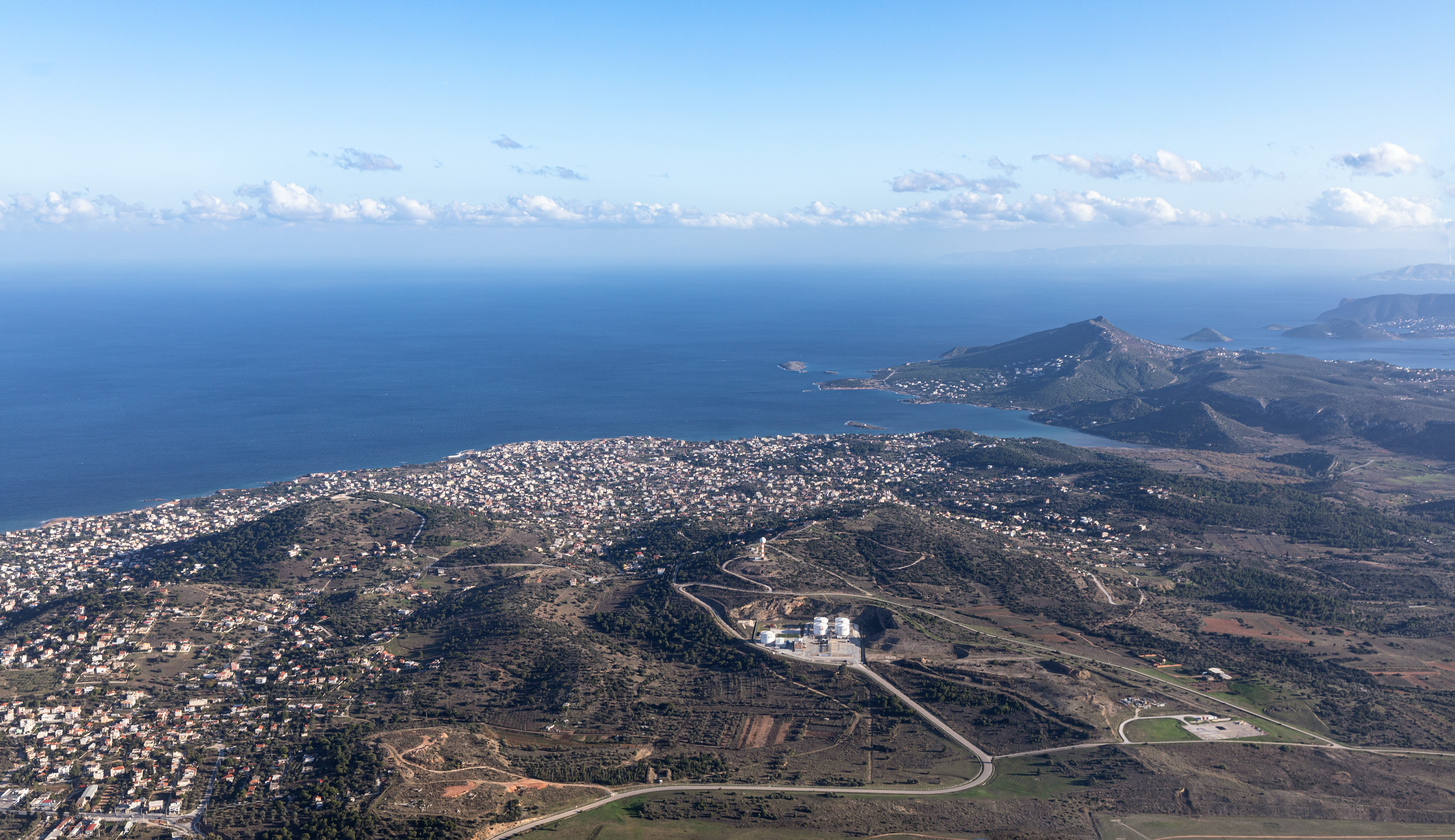 View of Artemida in Spata-Artemida/Markopoulo Mesogaias, East Attica, Greece.